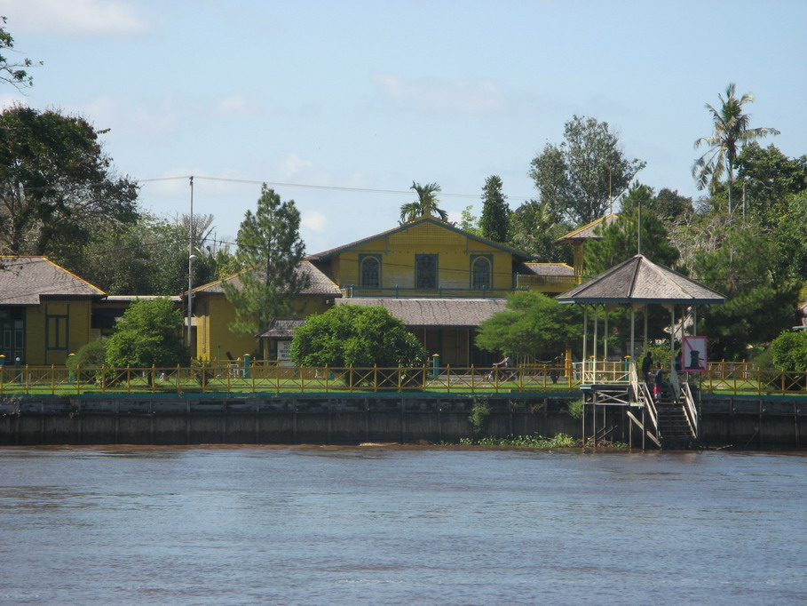 Keraton Saunan (Gusti Muhammad Saunan), used to be a palace of Melayu kingdom in Ketapang, West Kalimantan, Indonesia. Now it is a museum.